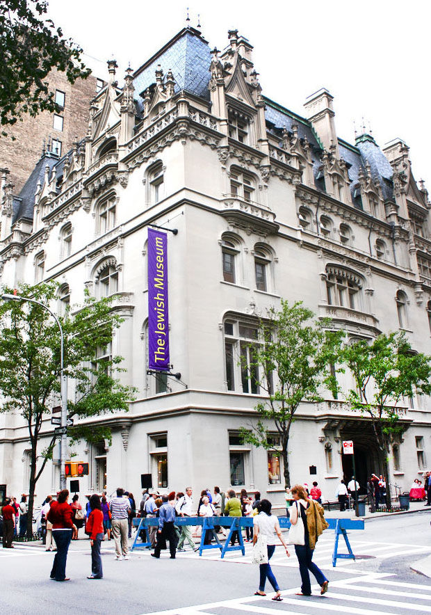 Facade of The Jewish Museum of New York during the 2009 Museum Mile Festival